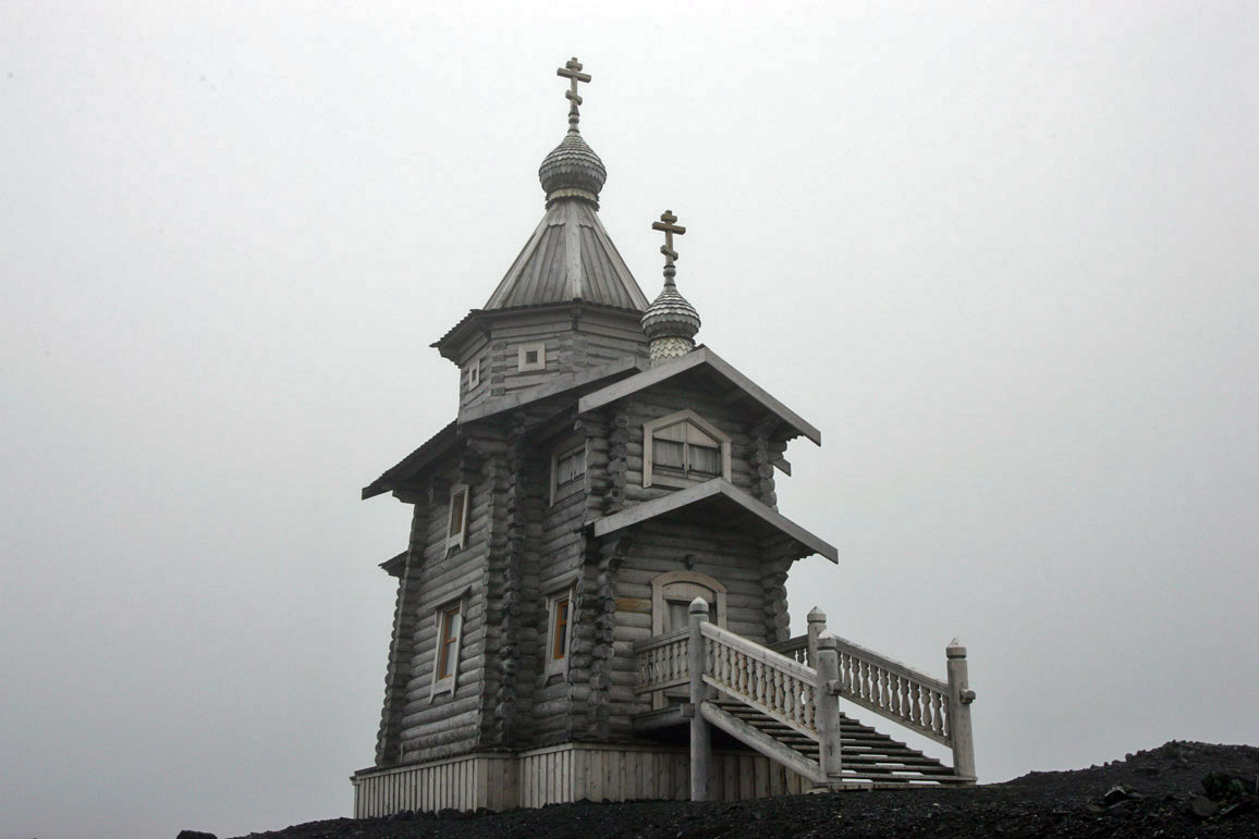 Trinity Church at Bellingshaussen, Antarctica 2005